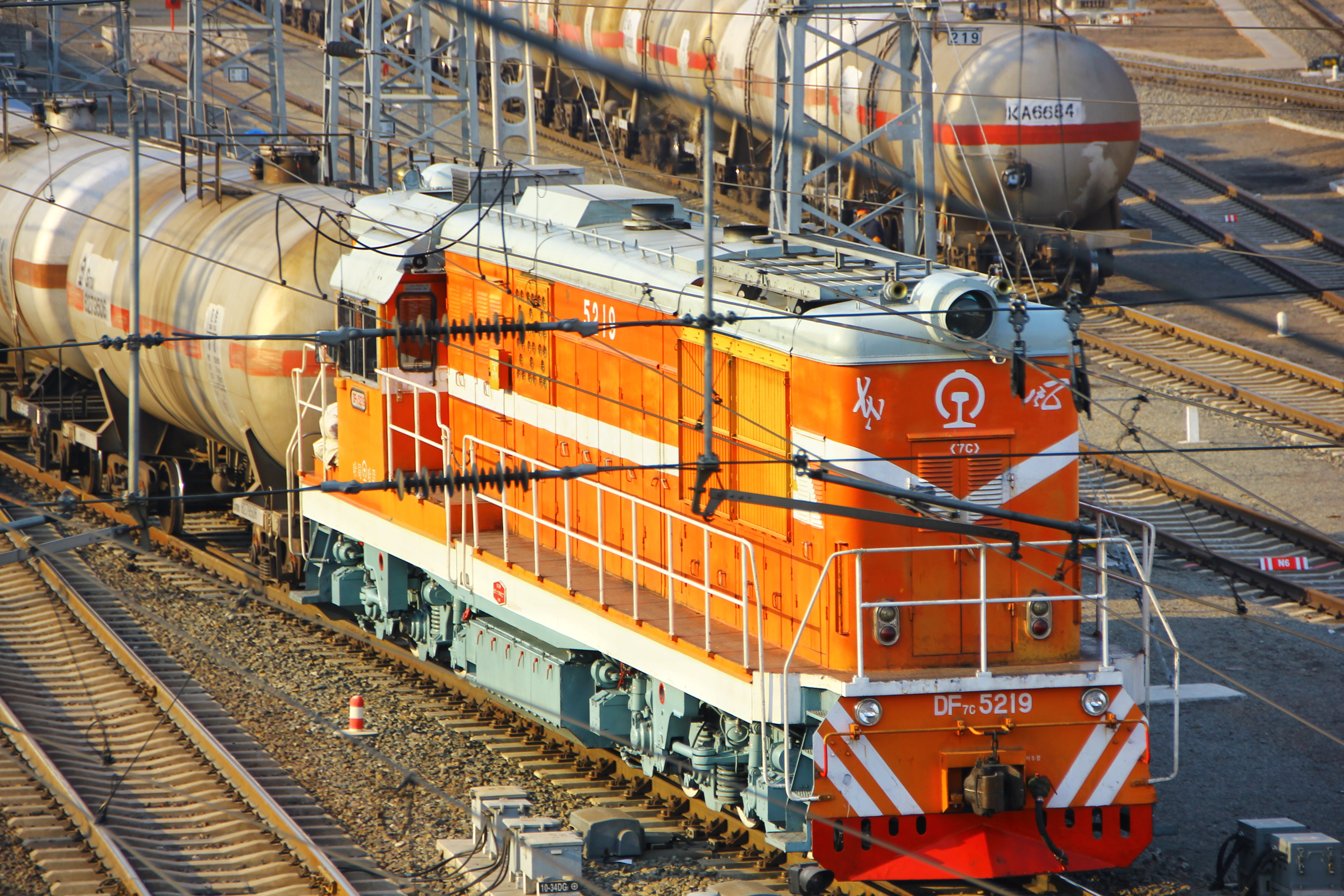 DF7C-5219 at Harbin East Railway Station